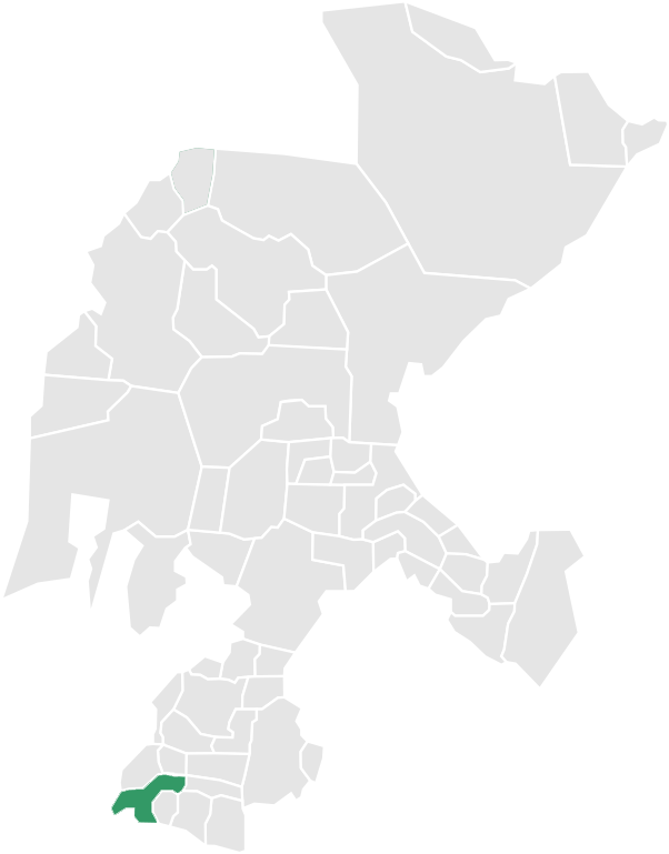 Map of the Municipality of Teul de González Ortega in Zacatecas, México.